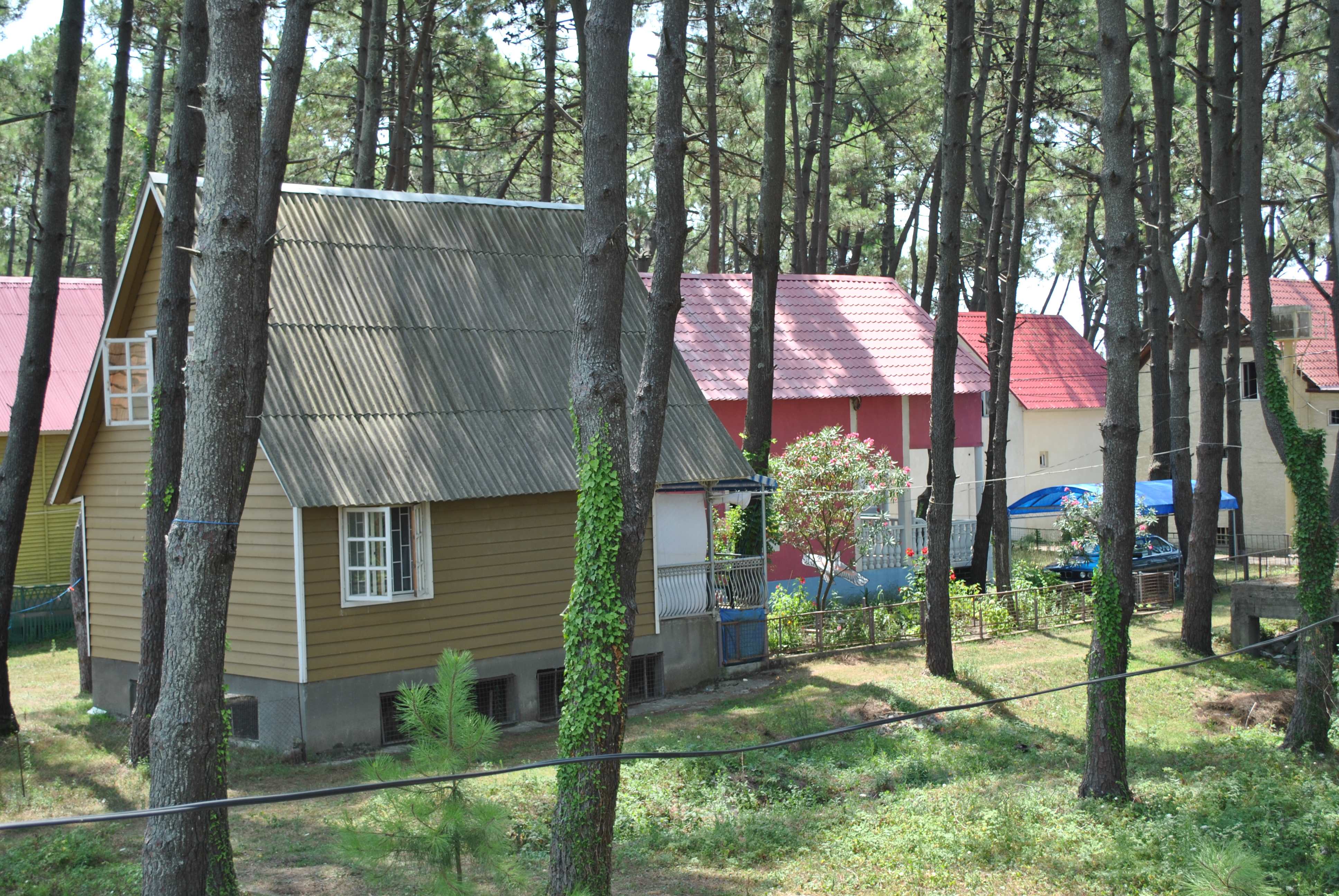 vill. Grigoleti